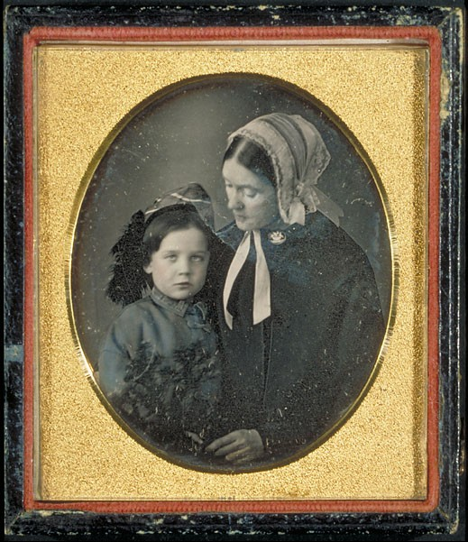 Daguerreotype of Lidian (real name: Lydia) Jackson Emerson, wife of Ralph Waldo Emerson, and their son Edward Waldo Emerson (1844-1930). Image courtesy of Harvard University Library.